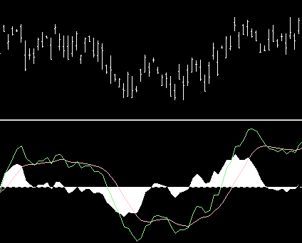 This image was created by me. The data shown is random numbers generated by a program I wrote. The image itself is a screenshot from my charting program, captured with xwd and the gimp. The green line is the fast MACD, the red line is the smoothed version of that. The solid white histogram is the difference between those two lines.